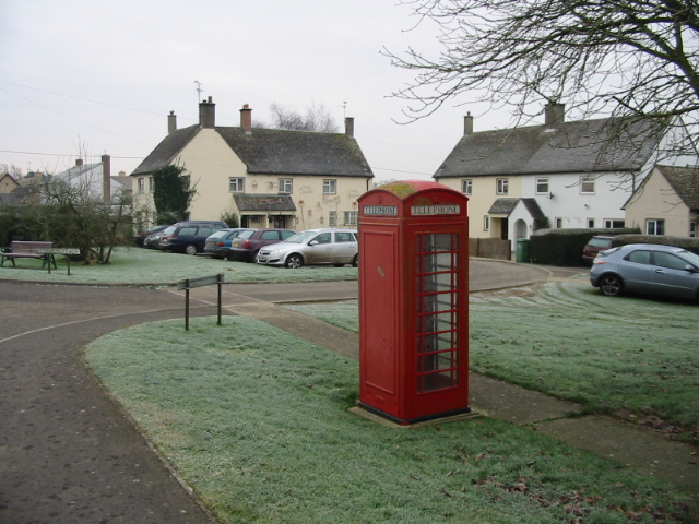 Telephone box, St Leonard's Row